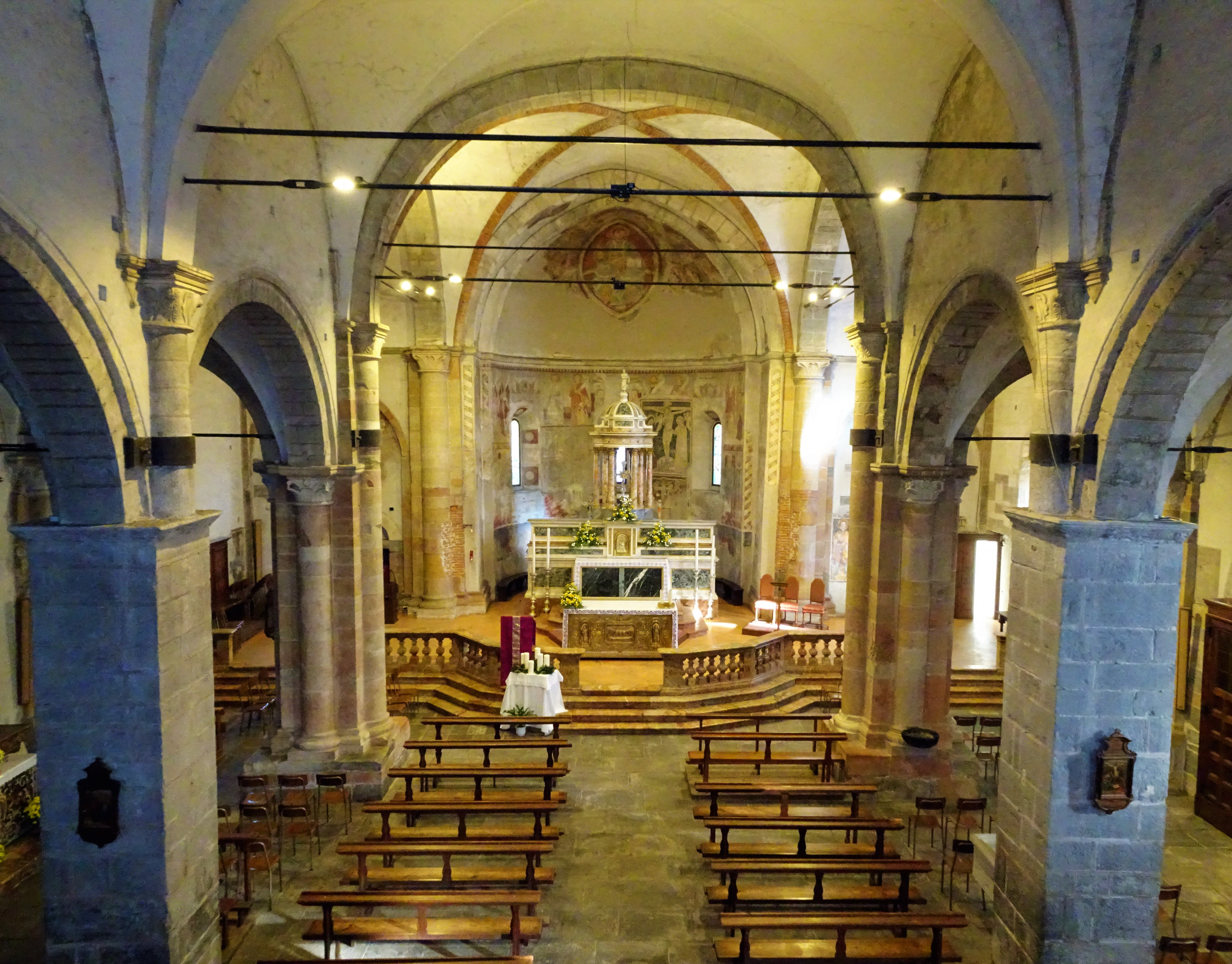 Interior of St. Peter and Paul church, Brebbia